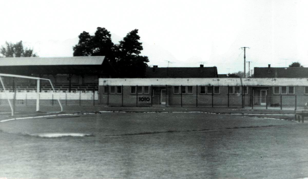 The new dressing-room building include more shower and restrooms built in beginning of 70's